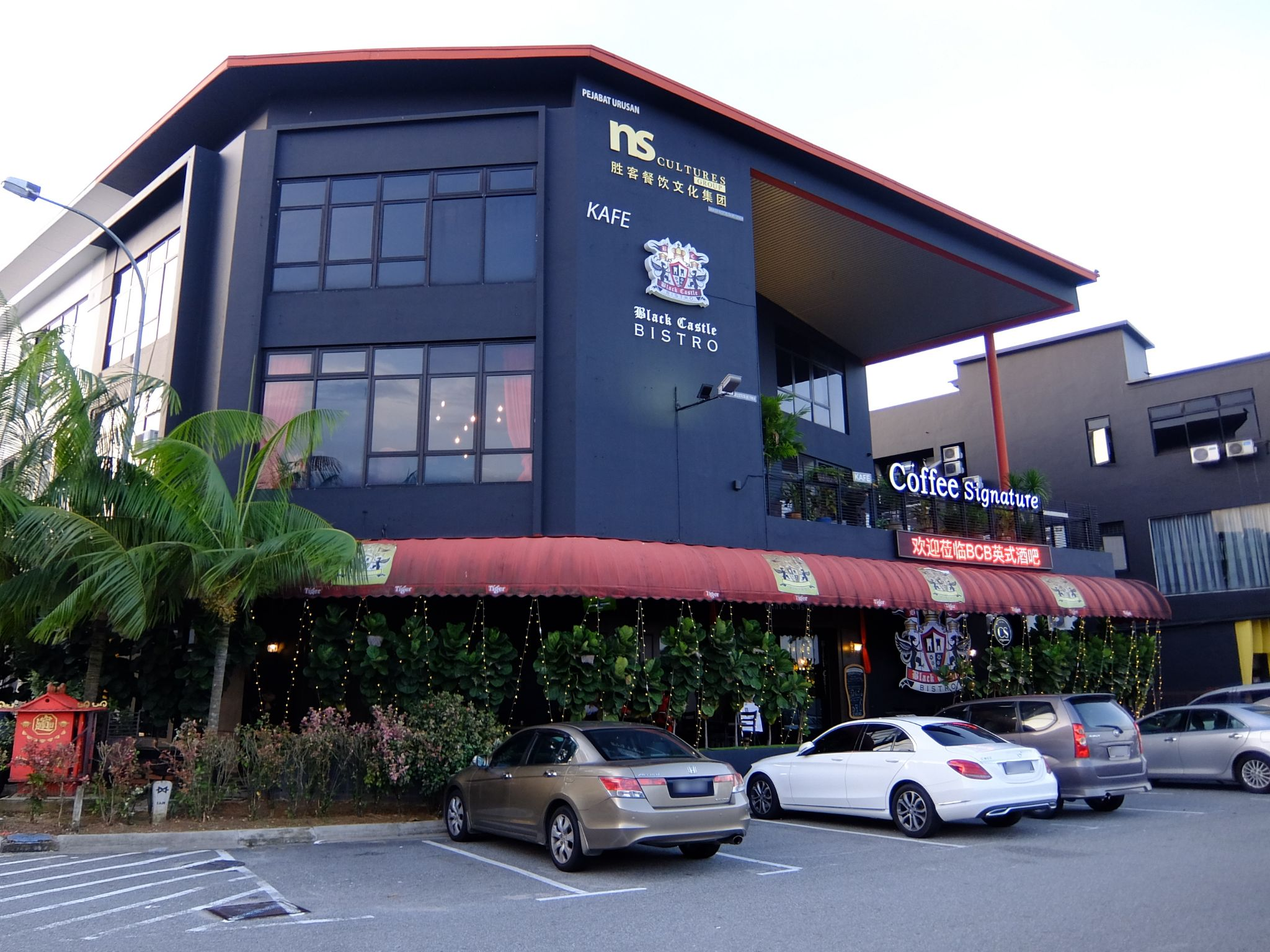 Black Castle Bistro, Bukit Indah, Iskandar Puteri, Johor, Malaysia